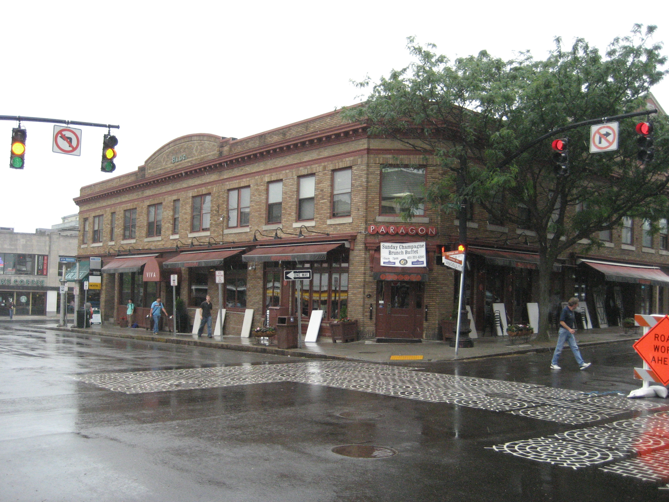 Providence, Rhode Island. Thayer Street.